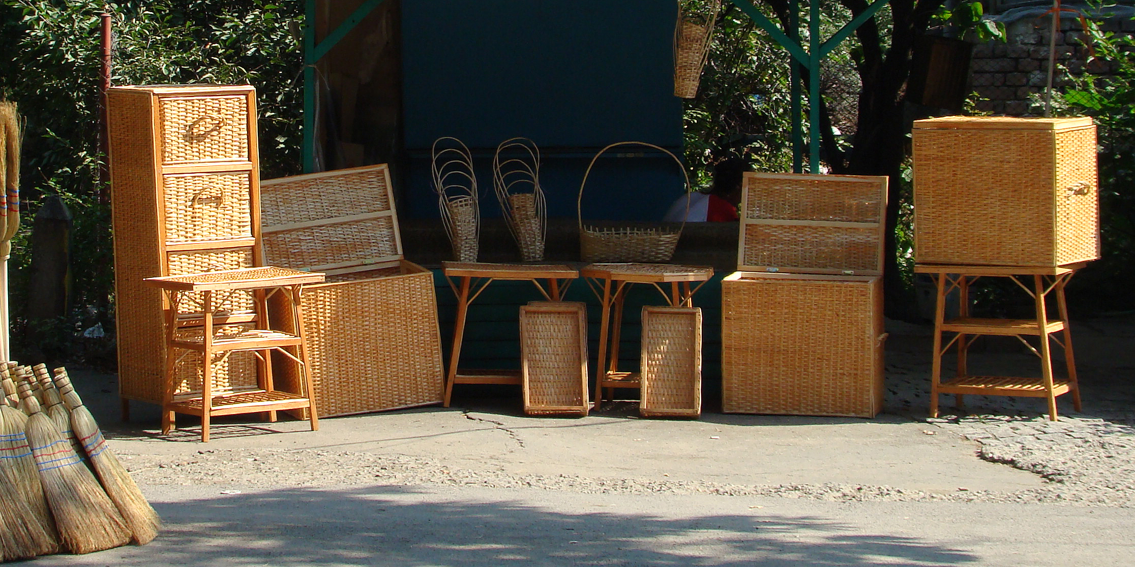 Hand made basketry products for street sale in Sofia, Bulgaria